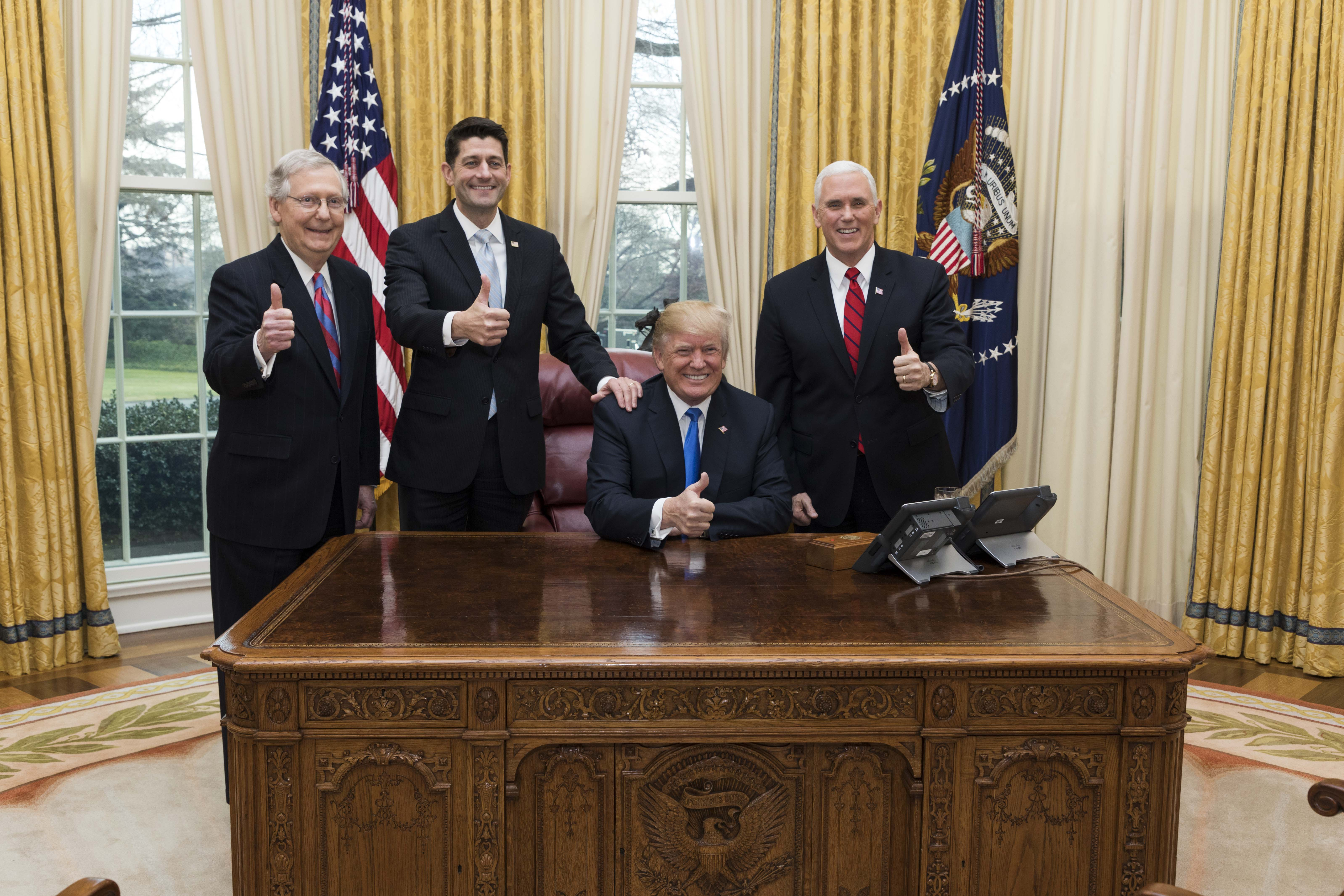 President Donald J. Trump celebrates the passage of the Tax Cuts Act with Vice President Mike Pence, Senate Majority Leader Mitch McConnell, and Speaker of the House Paul Ryan | December 20, 2017 (Official White House Photo by Joyce N. Boghosian)